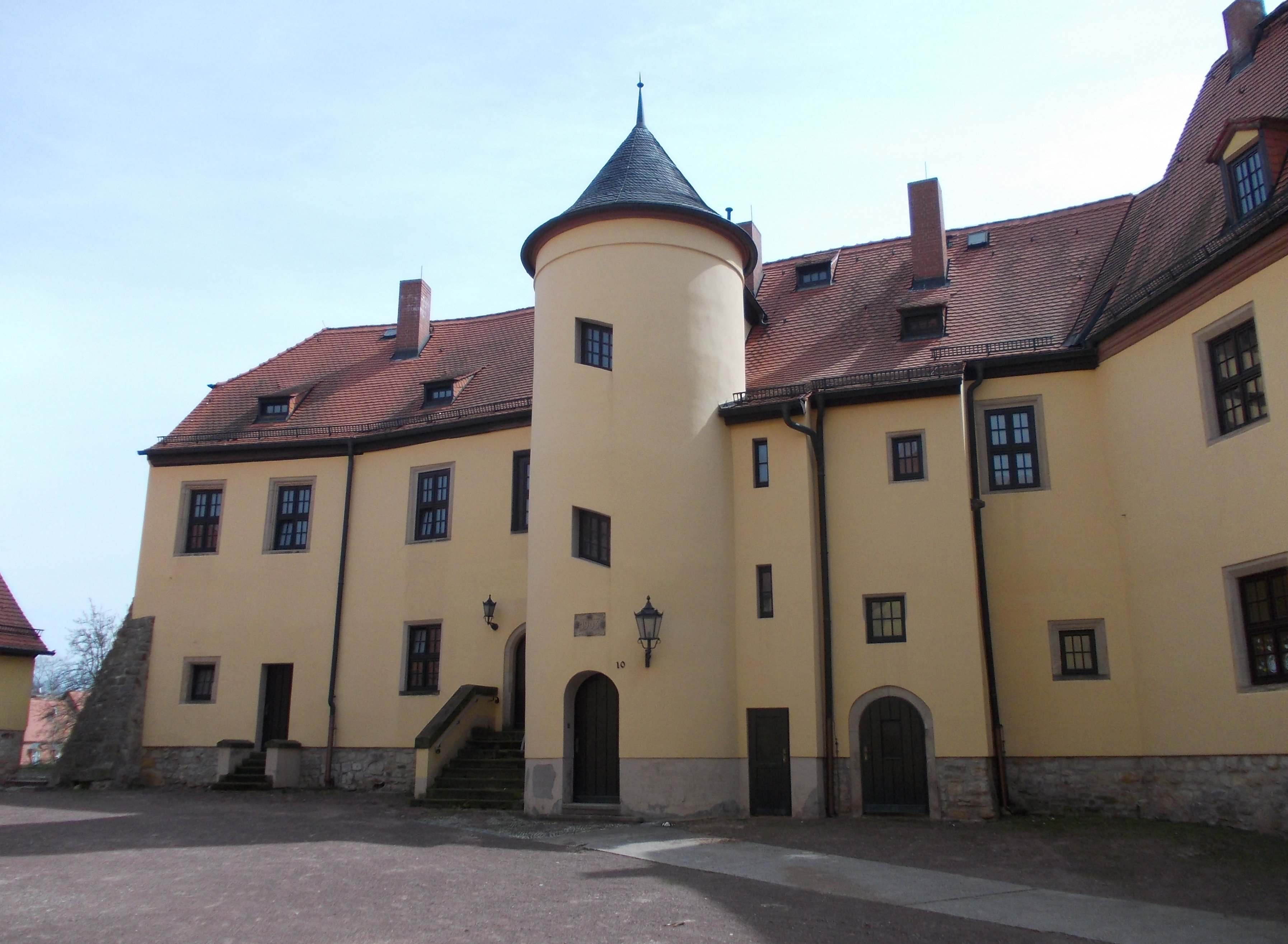 The castle of Bad Lauchstädt (district of Saalekreis, Saxony-Anhalt)